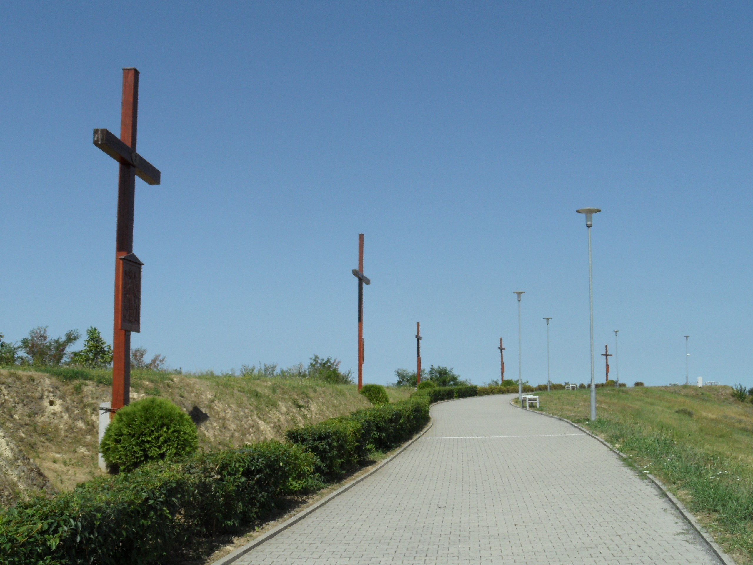 The calvary of Aljmaš (Croatia)